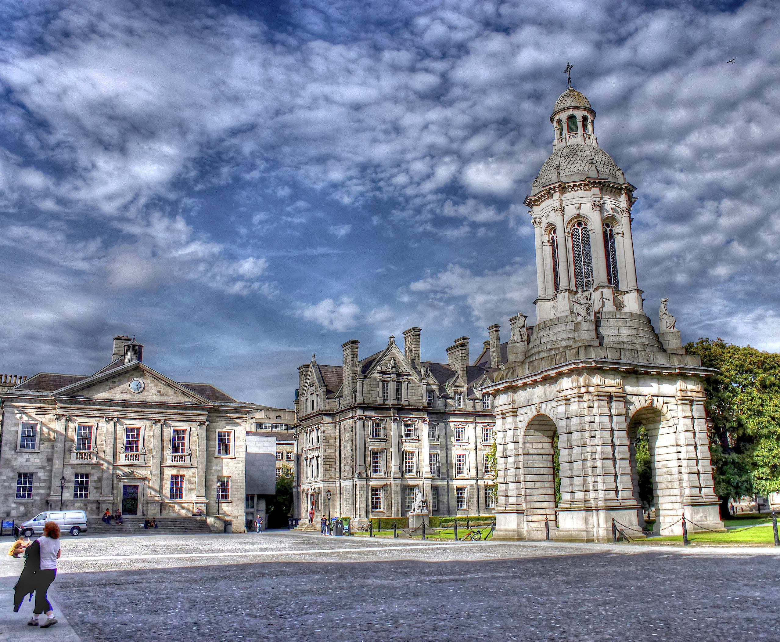 Trinity College